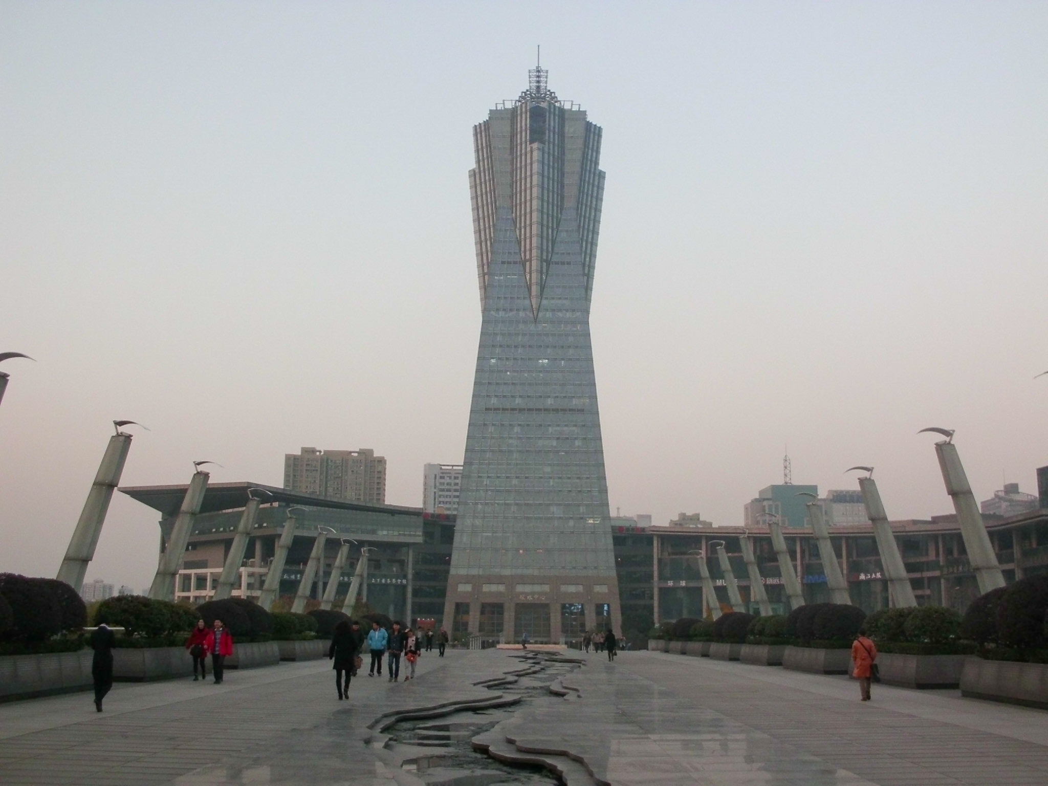 Westlake Cultural Square